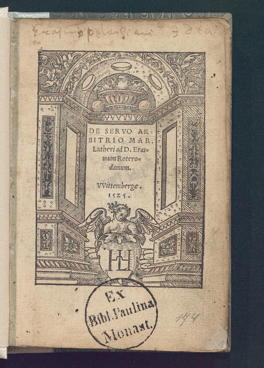 Title page of On the Bondage of the Will